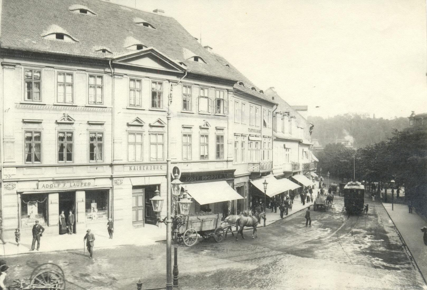 Look from today's theatre, round figures about year 1902